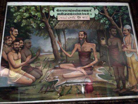 Kazi Ranabir Singh Thapa as Swami Abhayananda written in the picture itself; brother of Mukhtiyar Bhimsen Thapa